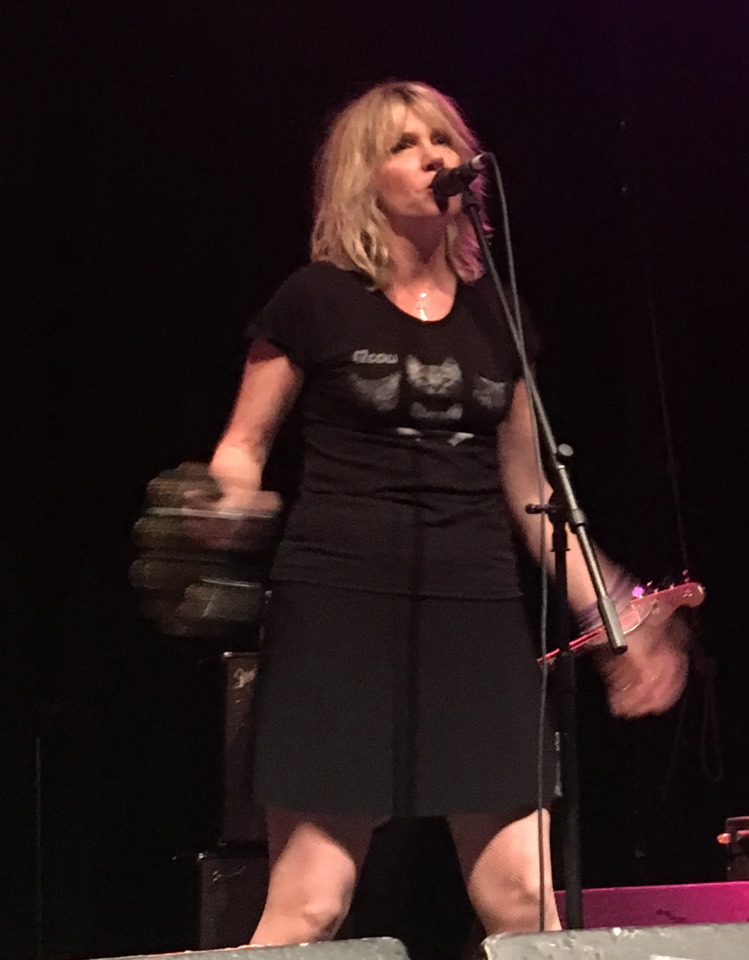 Ellen Reid Performing with Crash Test Dummies on March 29, 2019